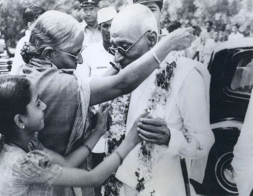 The first Indian Governor General of India, C. R. Rajagopalachari, had a Gandhian air and was very popular; a news photo, 1948, with *the original caption* Source: ebay, Apr. 2009 Full Caption reads: F01096329 -- WATCH YOUR CREDIT..INTERNATIONAL NEWS PHOTOS SLUG (RAJAGOPALACHARI) "C.R."---THE PRIDE OF INDIA MYSORE, INIDA [sic]....SINCE THE DEATH OF GHANDI MUCH OF INDIA'S ADULATION GOES TO THE FIRST INDIAN GOVERNOR GENERAL OF INDIA, CHAKPAVARTI RAJAGOPALACHA RAJAGOPALACHARI, WHO IS MORE GENERALLY REFERRED TO AS "C.R." OR "RAJAJI" AT MOST. DURING HIS RECENT TOUR OF SOUTH INDIA, HUGE CROWDS TURNED TURNE [sic] OUT TO GREET HIM AND MANY OF THE WOMEN TOOK GOLD NECKLACES FROM THEIR PERSON AND PUT THEM OVER THE NECK OF THEIR LOVED "C.R." SUCH A TRANSFER IS PICTURED HERE. THIS WAS A GESTURE THAT HAD PREVIOUSLY BEEN MADE TO MAHATMA GHANDI. THIS PICTURE WAS MADE IN MYSORE, THE MOST PROGRESSIVE OF INDIA'S STATES. IT WAS AT BANGALORE, CAPITAL OF MYSORE, THAT RAJAJI RECEIVED HIS COLLEGE EDUCATION.